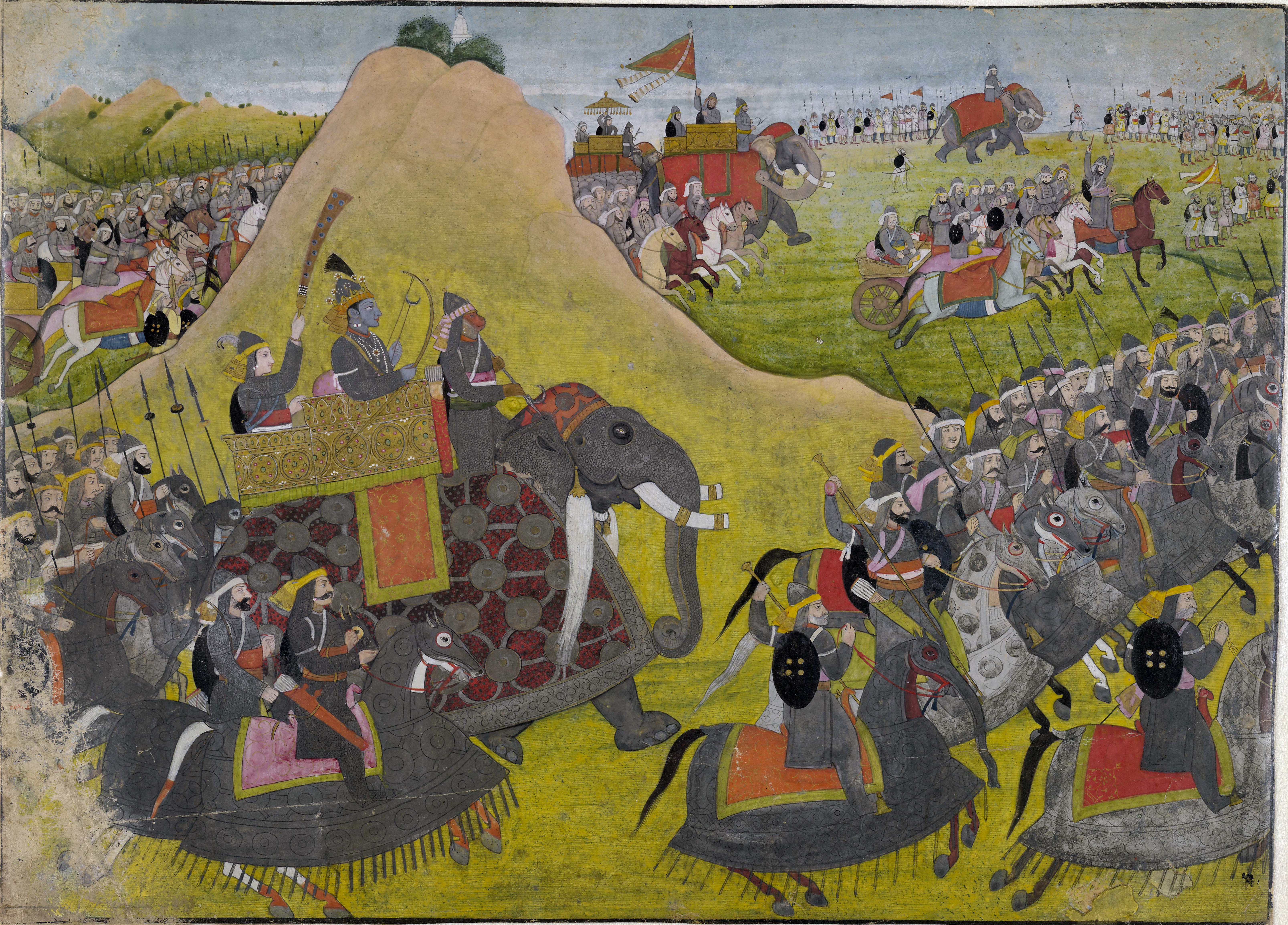 Scene from the Ramayana; Rāma going into battle. Seated atop an elephant, and accompanied by Lakṣmaṇa and Hanuman.